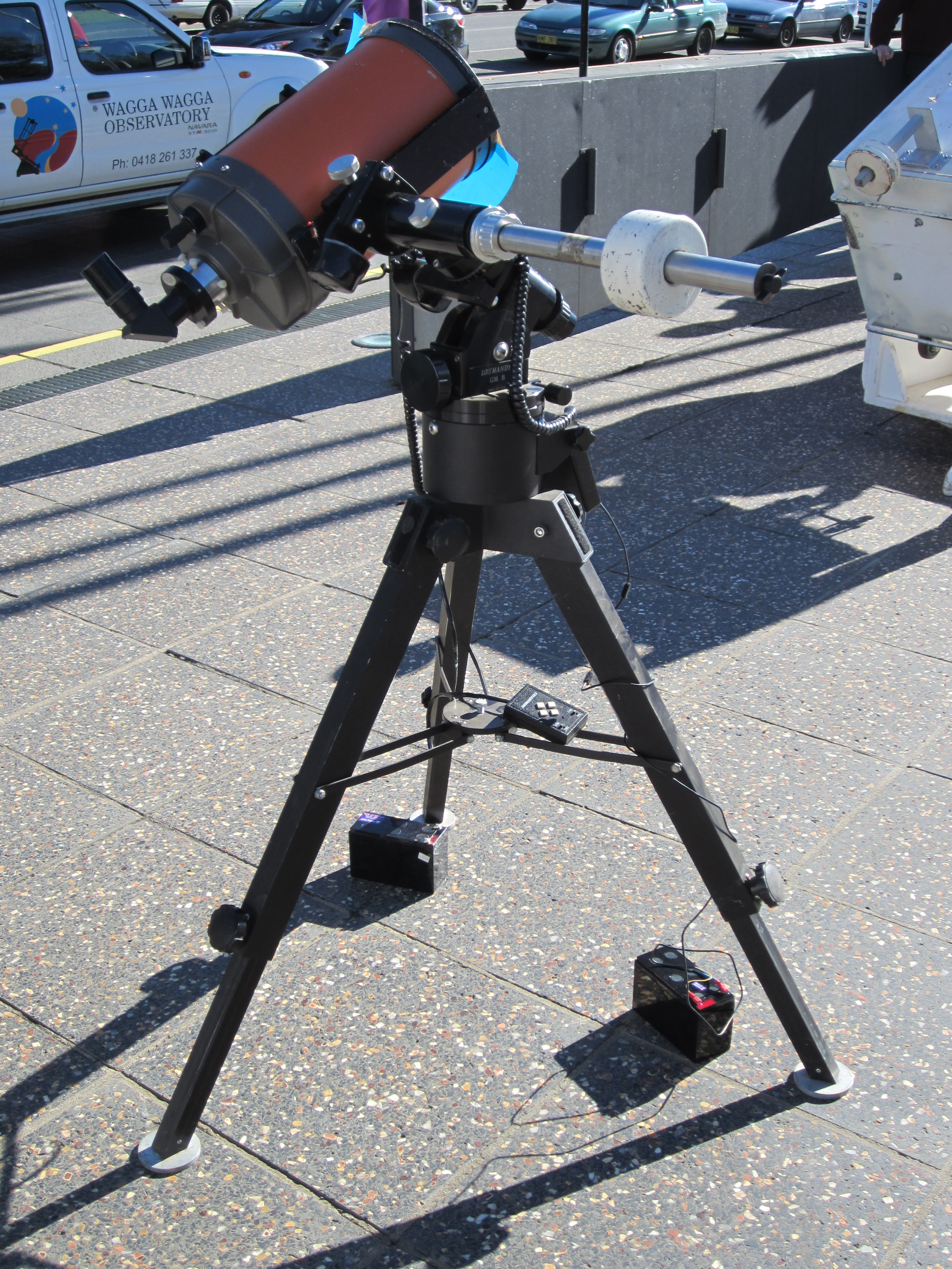 Telescope set up by the Wagga Wagga Observatory at the Civic Centre for those who wanted to view the transit of Venus safely.